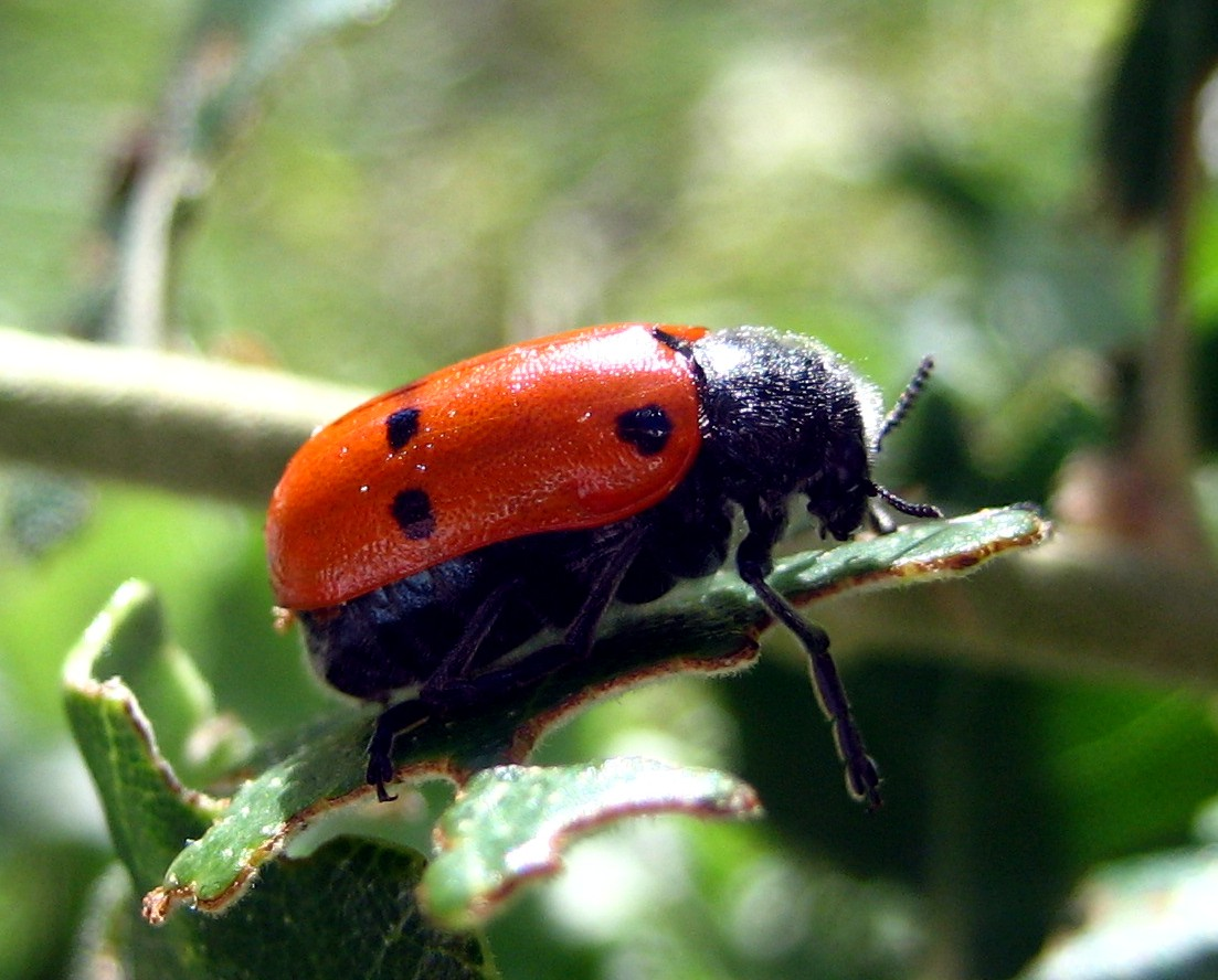 Lachnaia trisignata (Alfara de Carles, Tarragona, Spain)